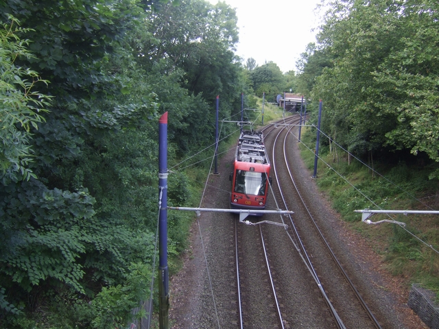 Priestfield railway station Original description: Wolverhampton bound tram at site of old Priestfield Station The modern tram stop on the Midland Metro is about 400m nearer to Wolverhampton.